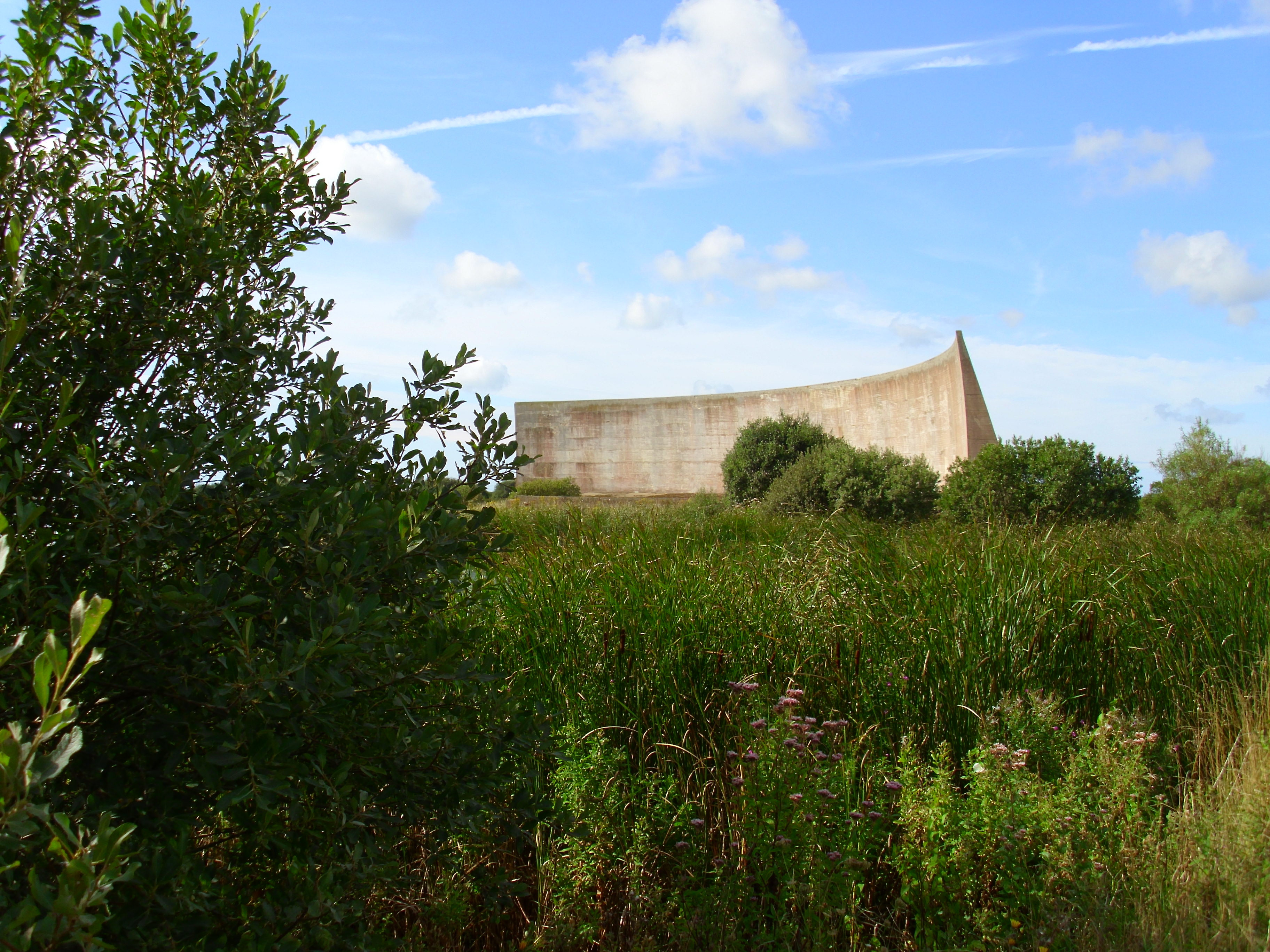 The largest of three experimental sound mirrors built in the 1930s on the coast at Denge, Kent, England, for air defence. These were used to detect incoming enemy aircraft by listening for the sound of their engines. This mirror formed a large horizontal arc about 5 m high and 70 m long. In use, a series of microphones were placed at the focus in front so that the direction of the sound detected could be determined. The wall has a circular rather than parabolic curve, so sounds coming from different directions come to a focus at different points. Standing at the focus today can be quite a surreal experience - the sound of passing trains on the nearby Romney, Hythe & Dymchurch Railway is massively amplified and the direction of the sound is mirrored to the opposite direction from which it comes! This was the last functional mirror built at this site and was made obsolete by the advent of radar during World War 2.